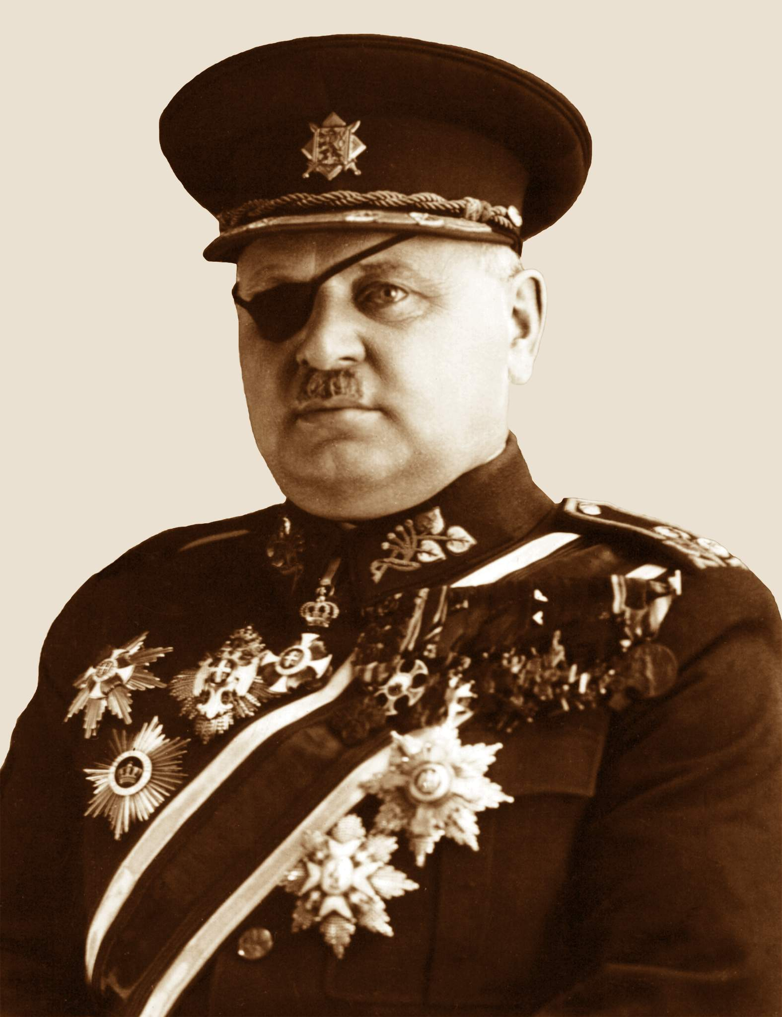 Portrait of Jan Syrovy (1888-1970)